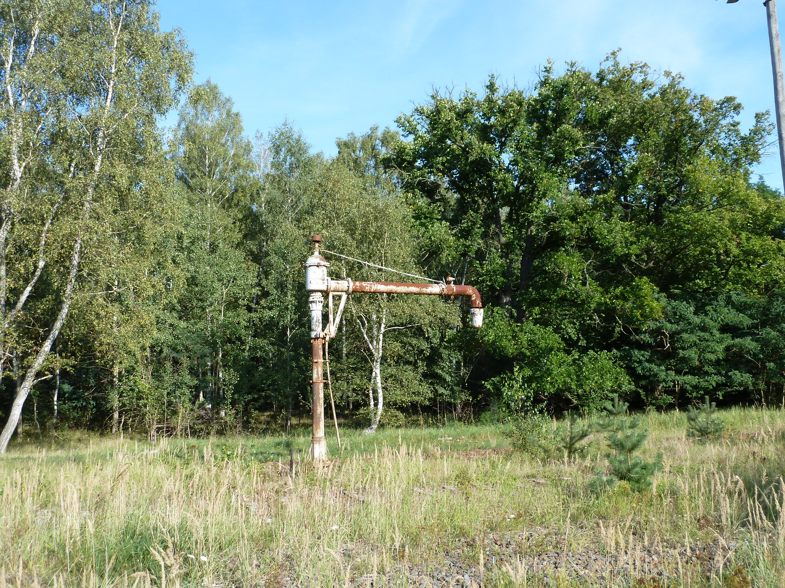 Former Jamlitz railway station